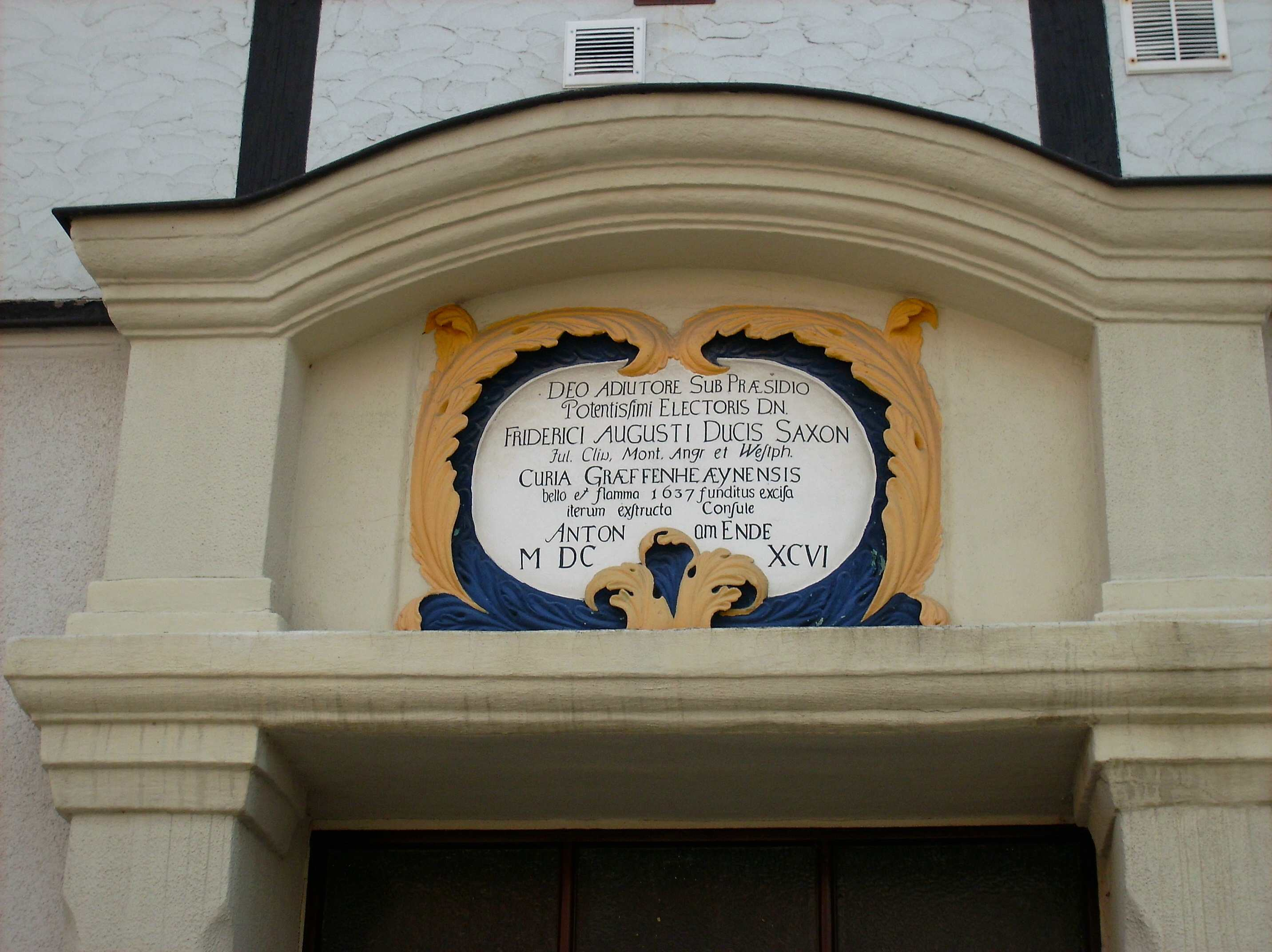 Inscription at the town hall of Gräfenhainichen (Wittenberg district, Saxony-Anhalt)